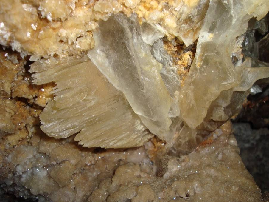 Crystals in Atlantida cave